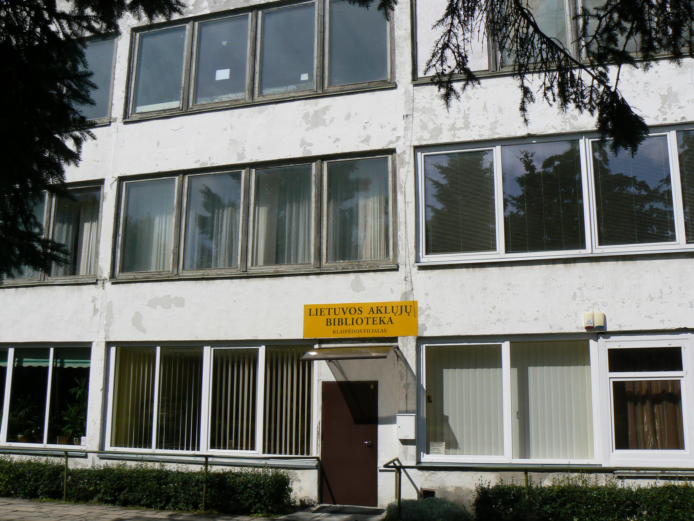 Library for blinds in Klaipėda